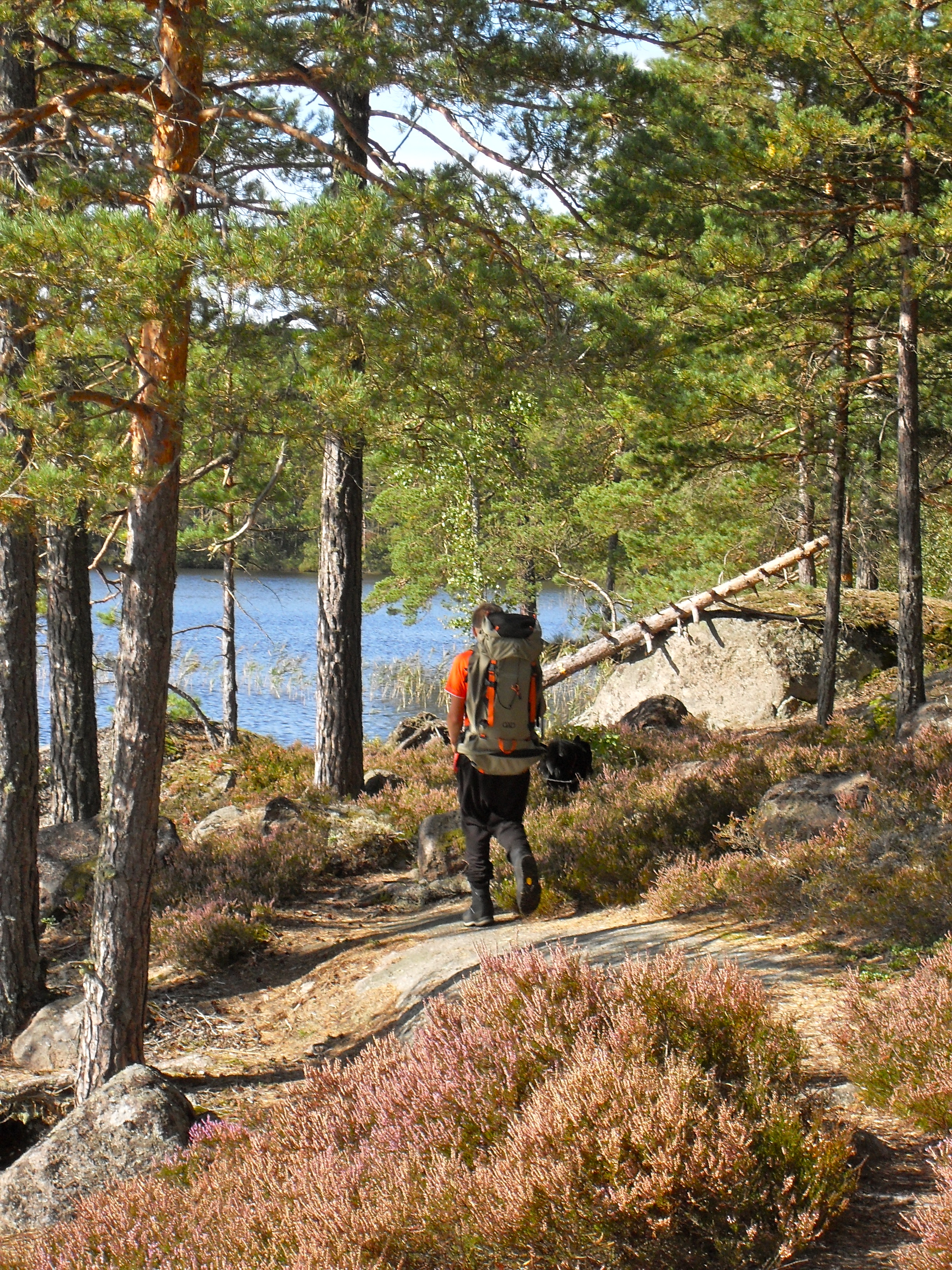 hiking att the tjustleden in summer